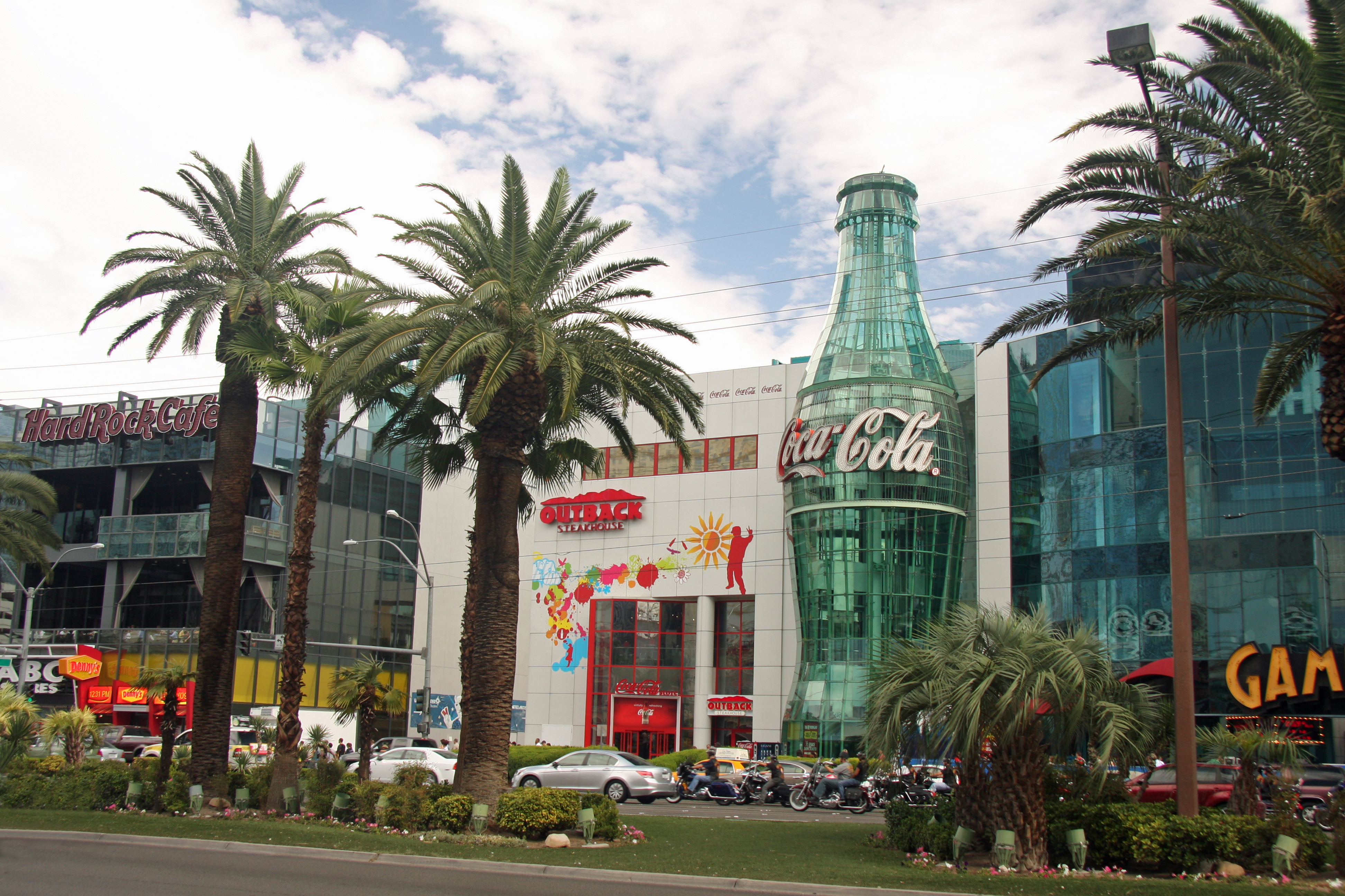 The Strip 21